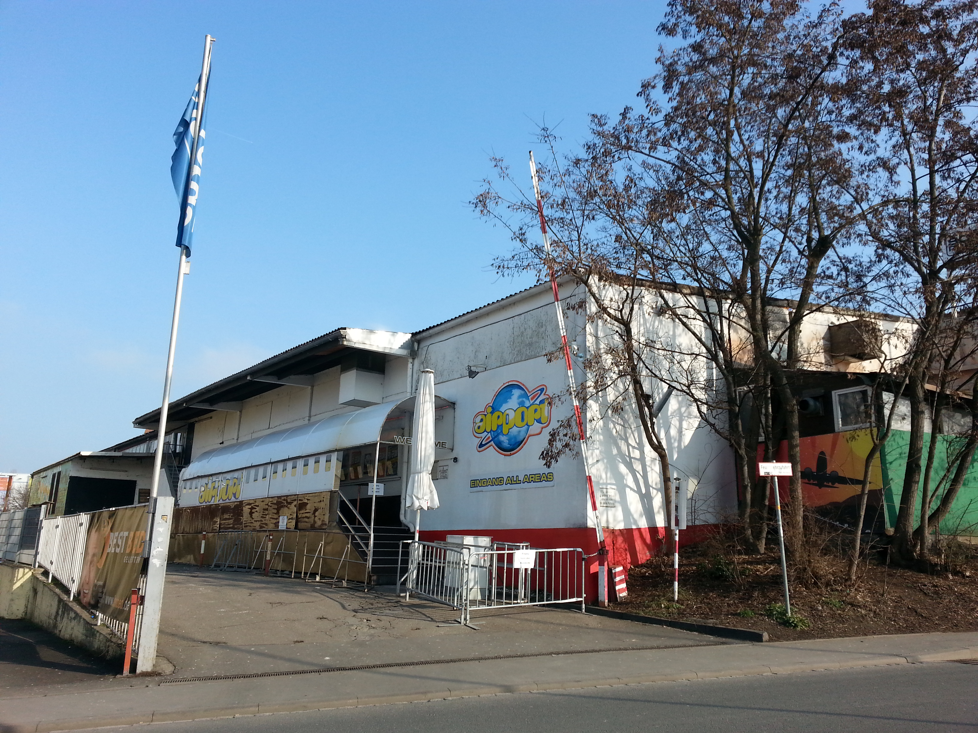 Disco Airport in Würzburg, Germany, view from the west, main entrance.